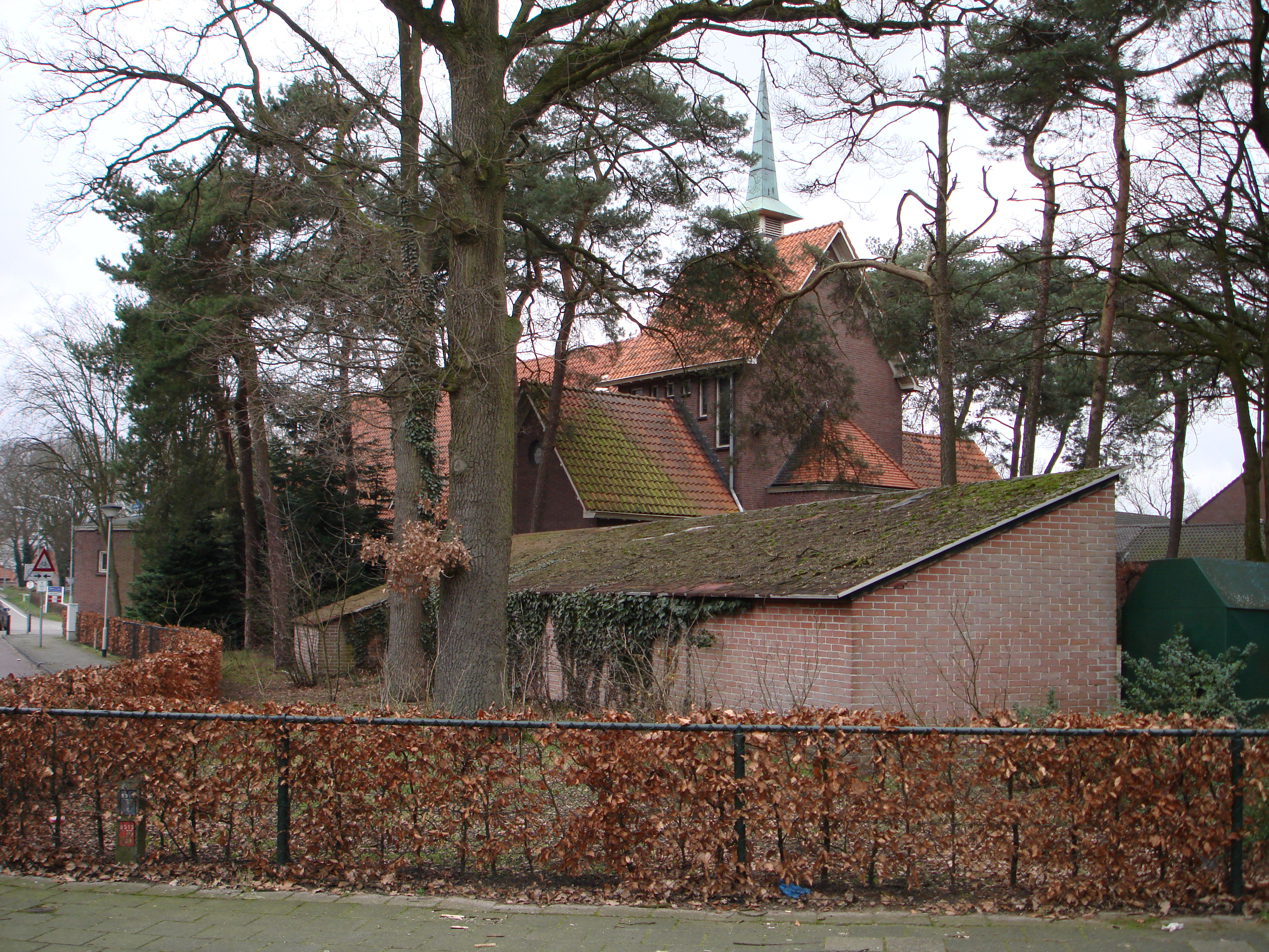 Gerardus church at Walsberg, Deurne, Netherlands.